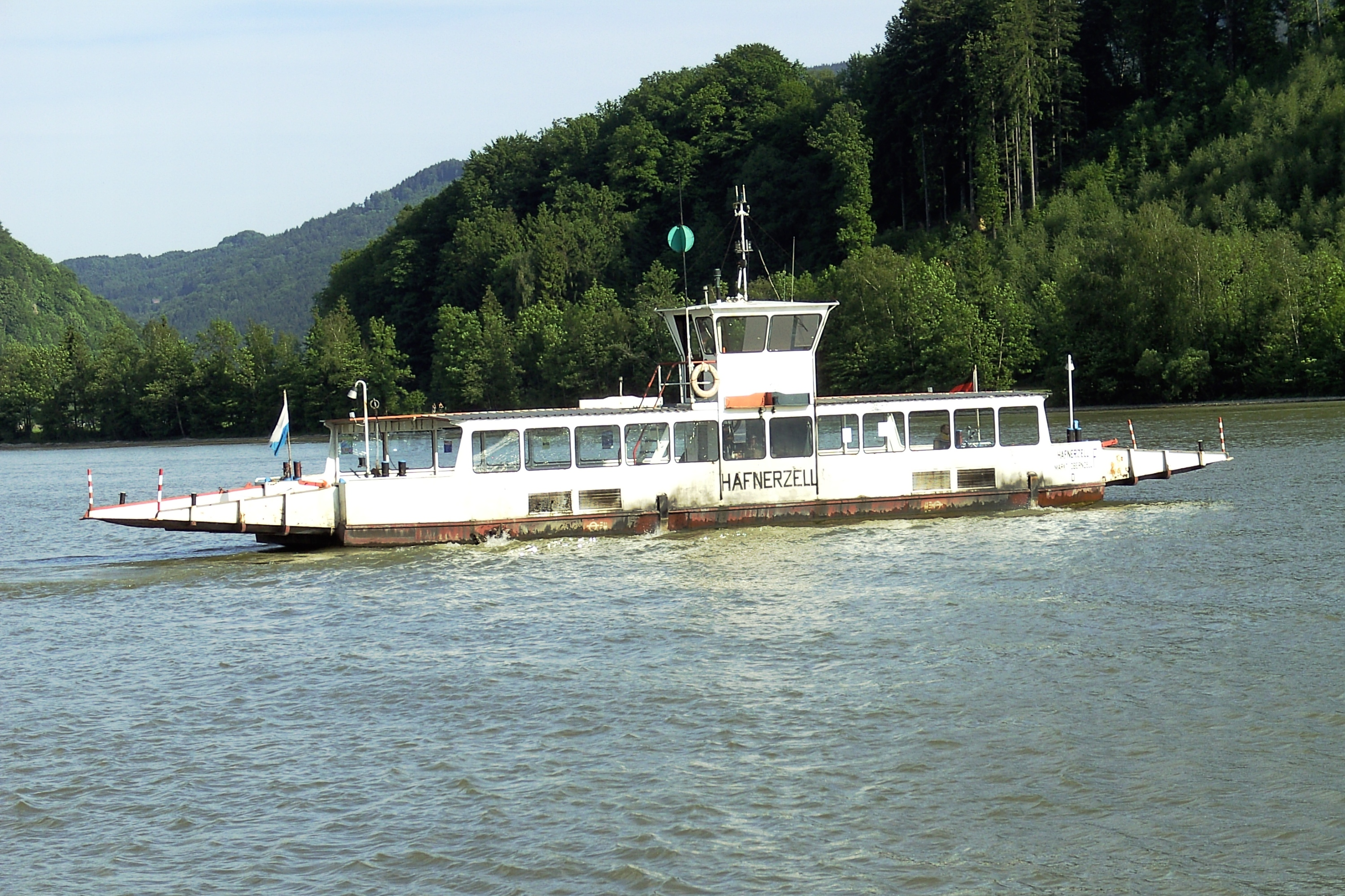 A ferry on the danube at the German-Austrian border region. On the other side of the river is Austria.